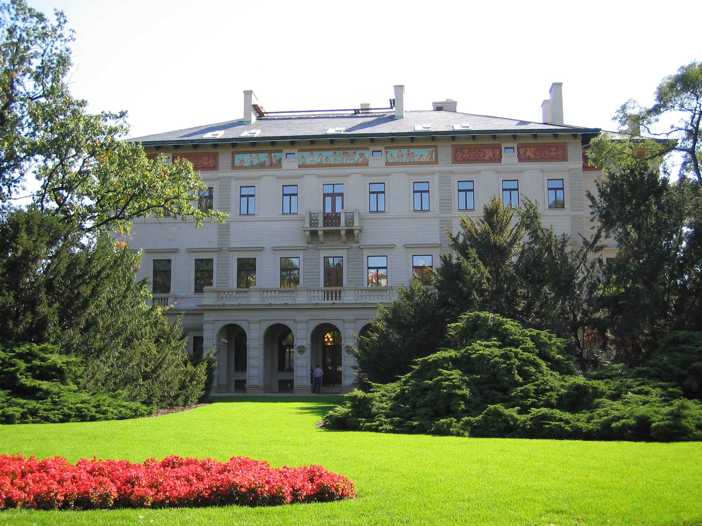 Gröbe villa in Prague's Havlíčkovy sady park after renovation